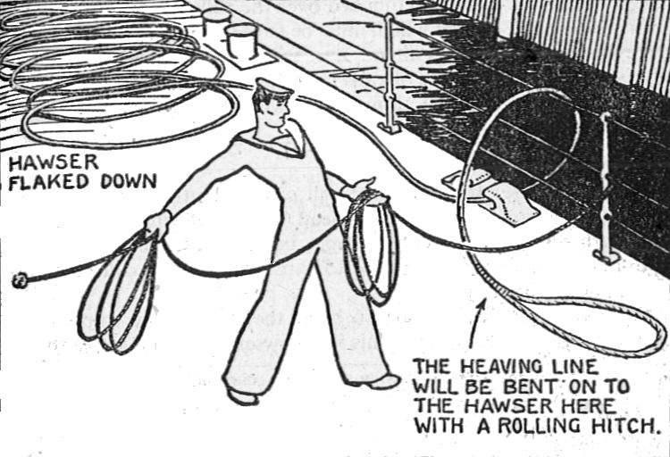 Heaving a line ashore (Seaman's Pocket-Book, 1943).jpg